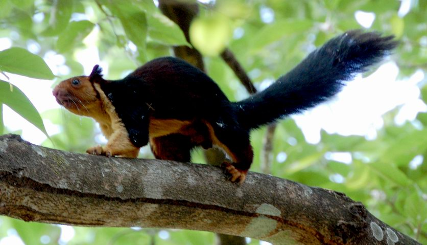 Malabar_giant_sqirrel. (Ratufa indica) shot at athirappilly, chalakudy, Thrissur, Kerala.